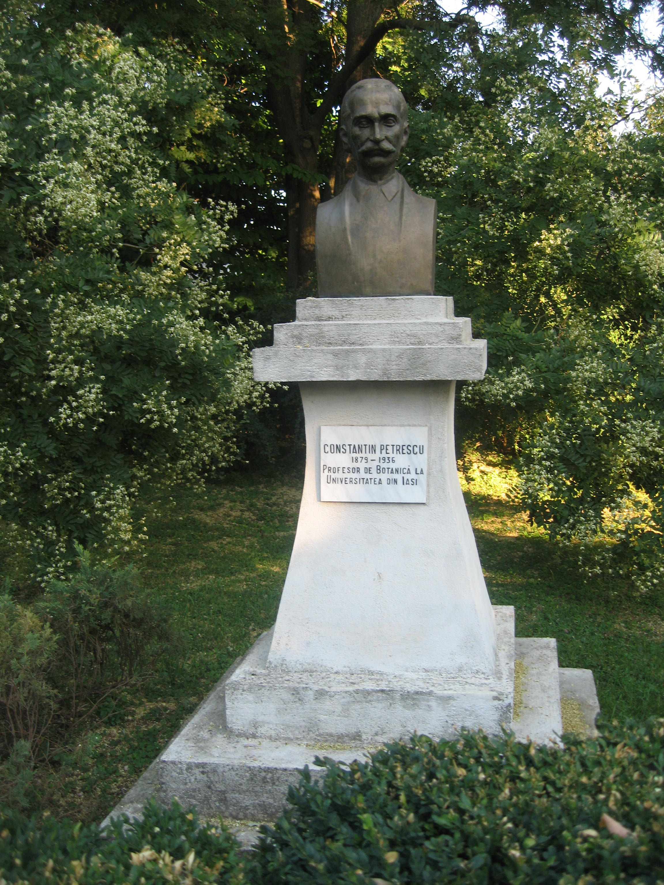 Bustul lui Constantin Petrescu din Iaşi